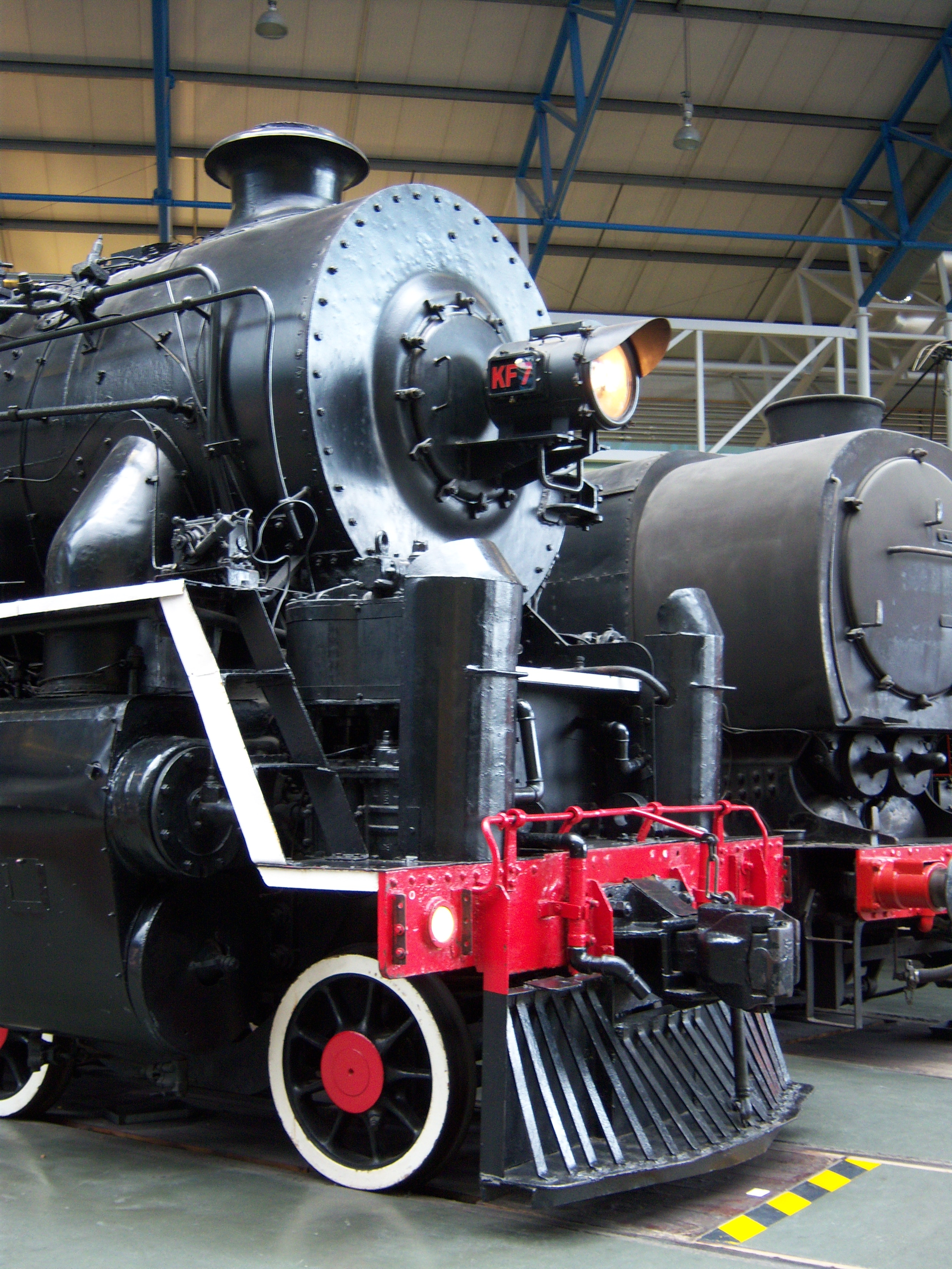 The Chinese Government Railways Class KF7 No 607 steam locomotive built by the Vulcan Foundry in Britain, exported to China, and returned to the UK as a gift by the Chinese, and which now stands in the Great Hall of the National Railway Museum in York, England. It has the same rail gauge as the UK system, but is much higher, wider and longer then British locomotives, as China has a larger loading gauge.